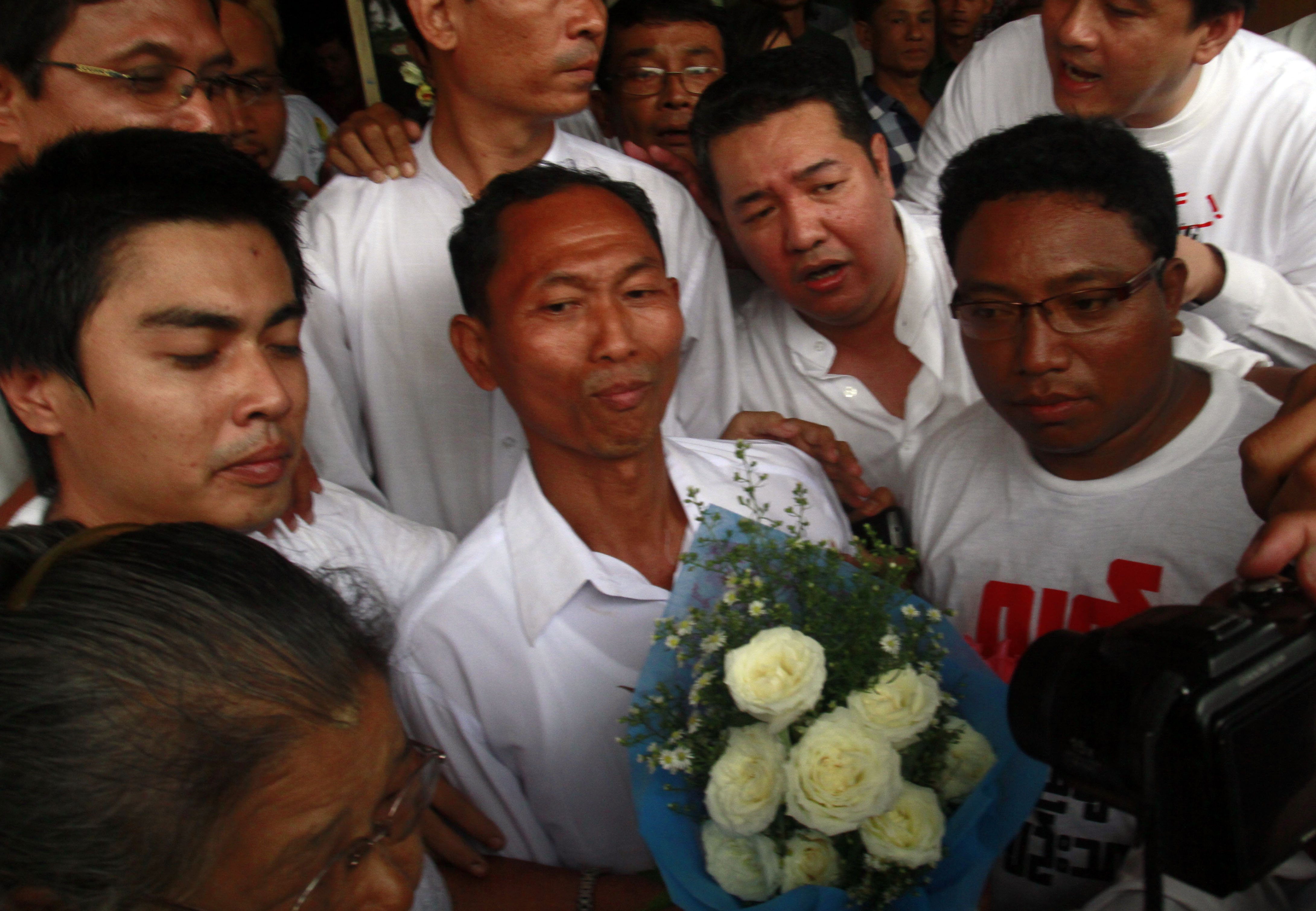 Myanmar democracy activist and one of the 8888 uprising student leader, Ko Ko Gyi (center) arrives to the yangon domestic airport as he is released by the government amnesty in Yangon, Myanmar on 13 January 2012. မြန်မာဘာသာ: ၈ လေးလုံး အရေးအခင်းနှင့် ဒီမိုကရေစီအရေး လှုပ်ရှားသူ ကျောင်းသားခေါင်းဆောင် ကိုကိုကြီး (အလယ်) အစိုး၏ လွတ်ငြိမ်းချမ်းသာခွင့်ဖြင့် ၁၃ ရက်နေ့က ရန်ကုန် ပြည်တွင်းလေဆိပ်သို့ ရောက်ရှိလာစဉ်